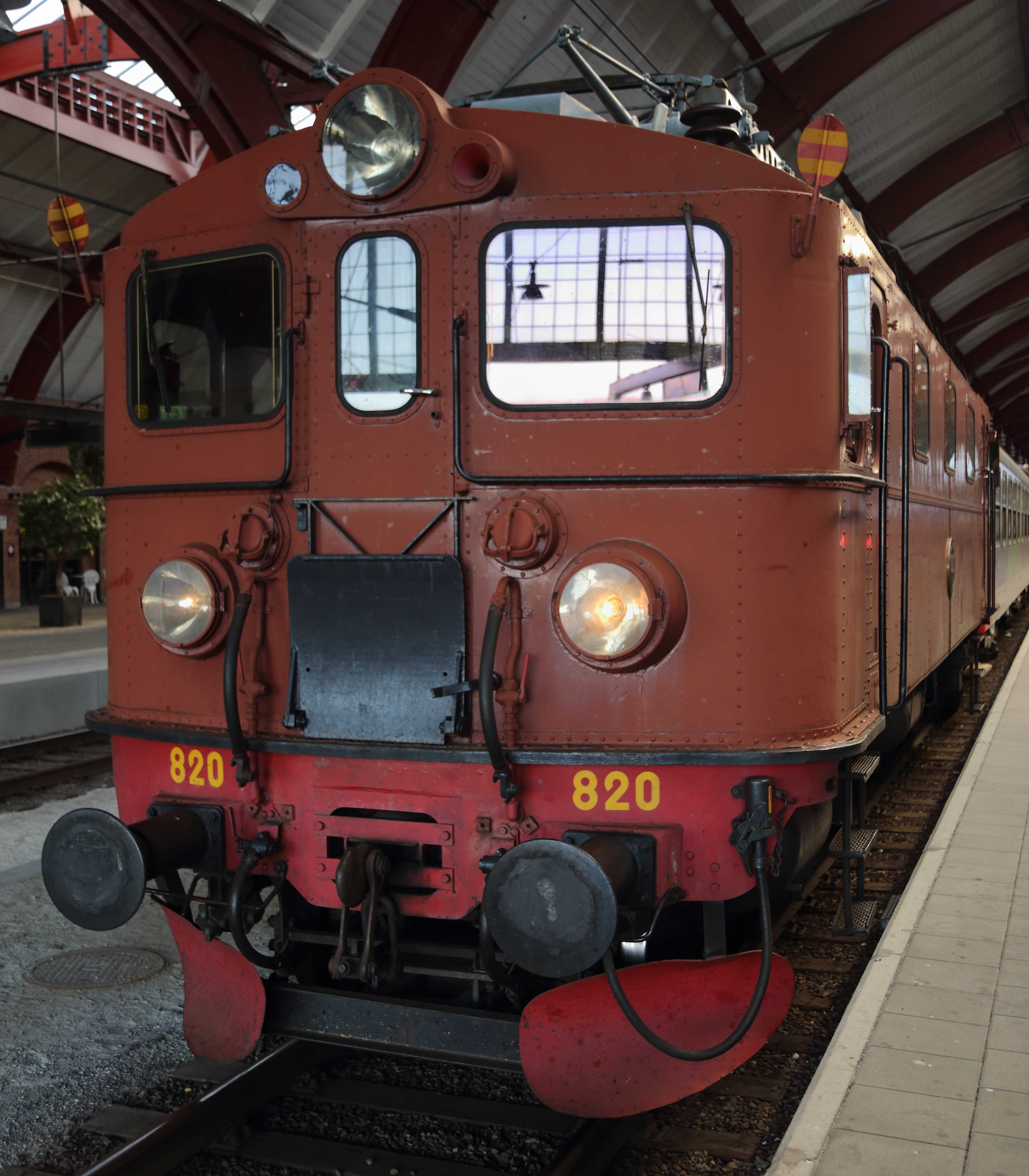 SJ locomotive litra Da 820 in Malmö, Sweden.